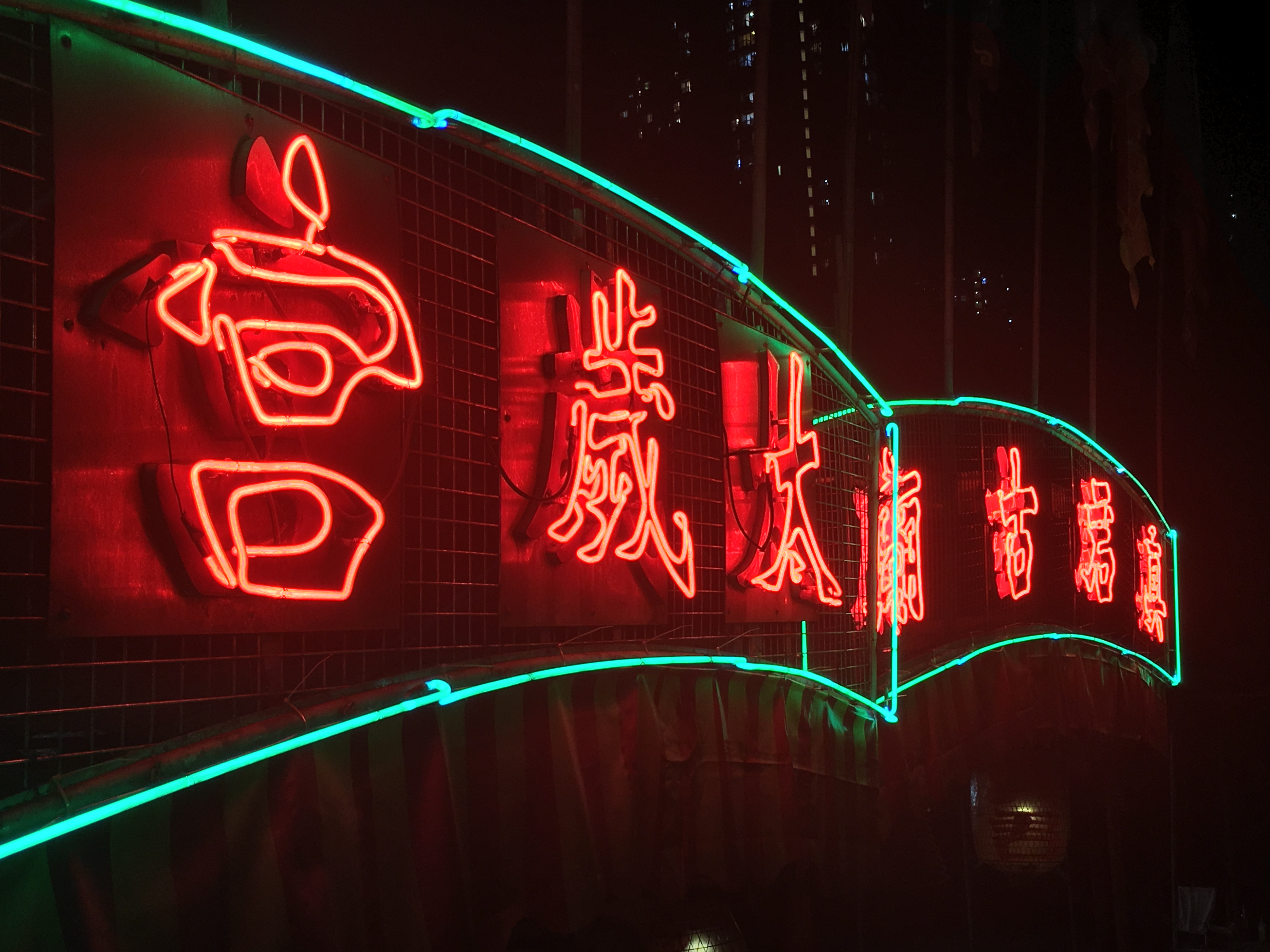 The neon signs of Chun Kwan Temple in Tsing Yi that lit up at night